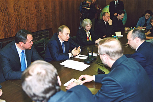 MOSCOW. President Putin meeting with the editorial staff of the newspaper Izvestia.